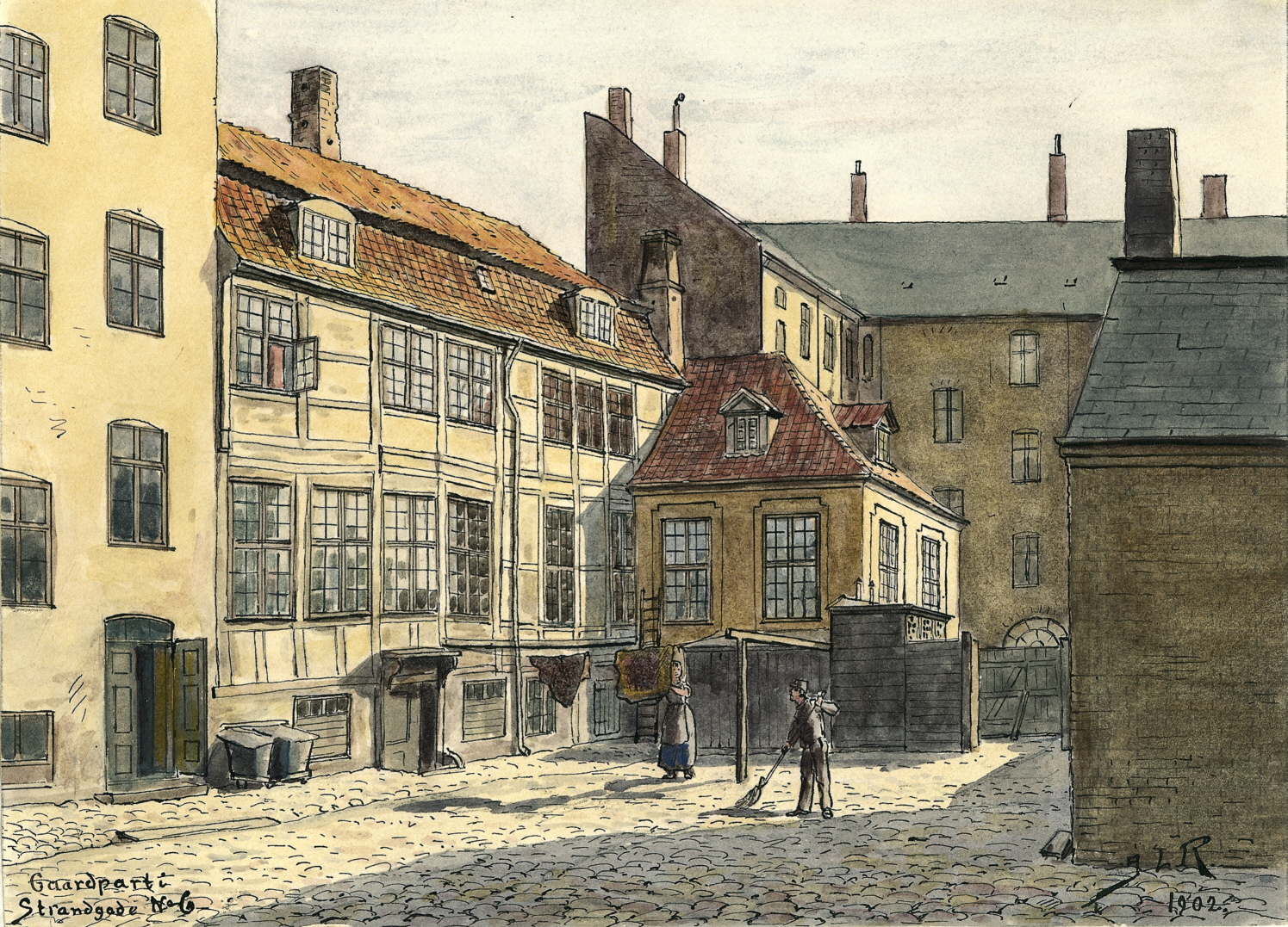 The courtyard to the rear of Strandgade 6 in Christianshavn, Copenhagen, Denmark. Danish: ""Gaardparti Strandgade No 6". Akvarel af J. L. Ridter 1902. Den grundmurede del af sidehuset helt t.v. i billedet er fra 1850'erne. Bindingsværkshuset er fra 1770'erne og "pavillonen" i baggrunden er fra 1760'erne.".